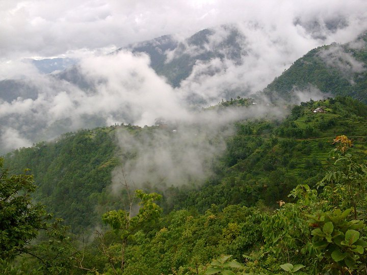 Dhankuta in rainy season.